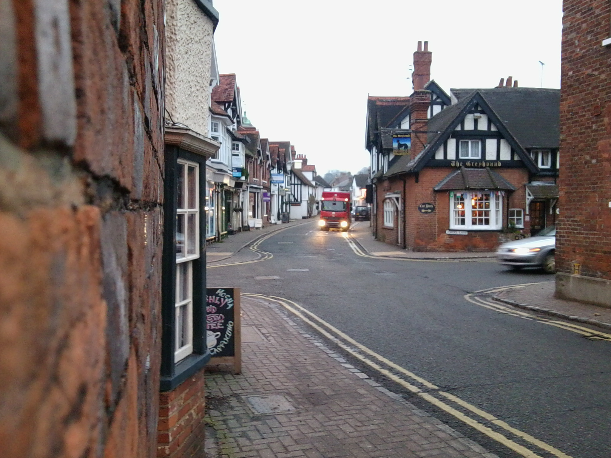 Pub, High Street, Wargrave